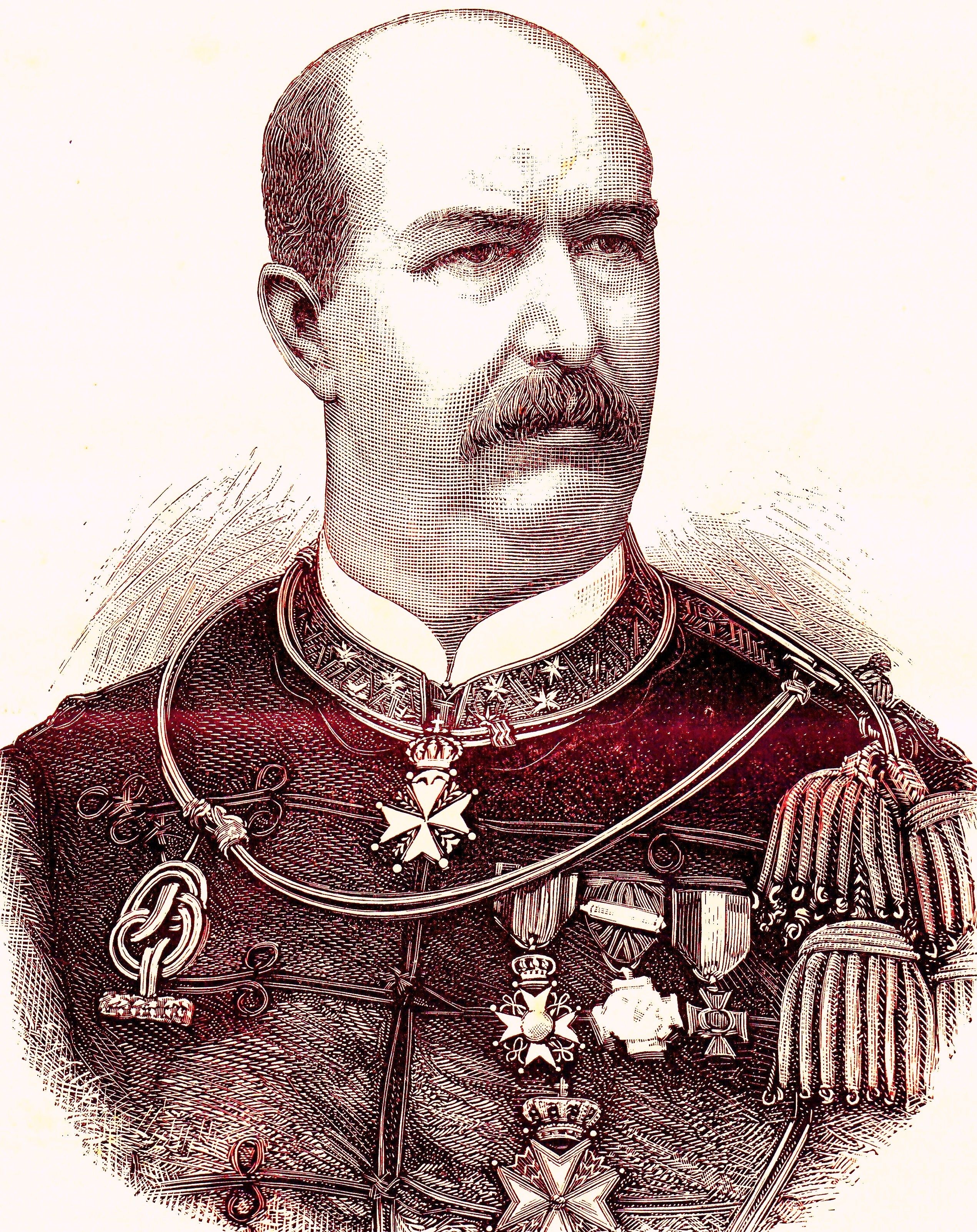 Generaal Demmeni